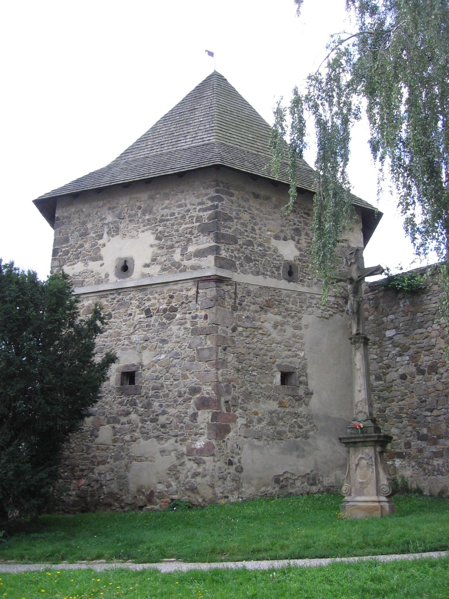 Medieval Bastion in Nový Jičín, Czech Republic.